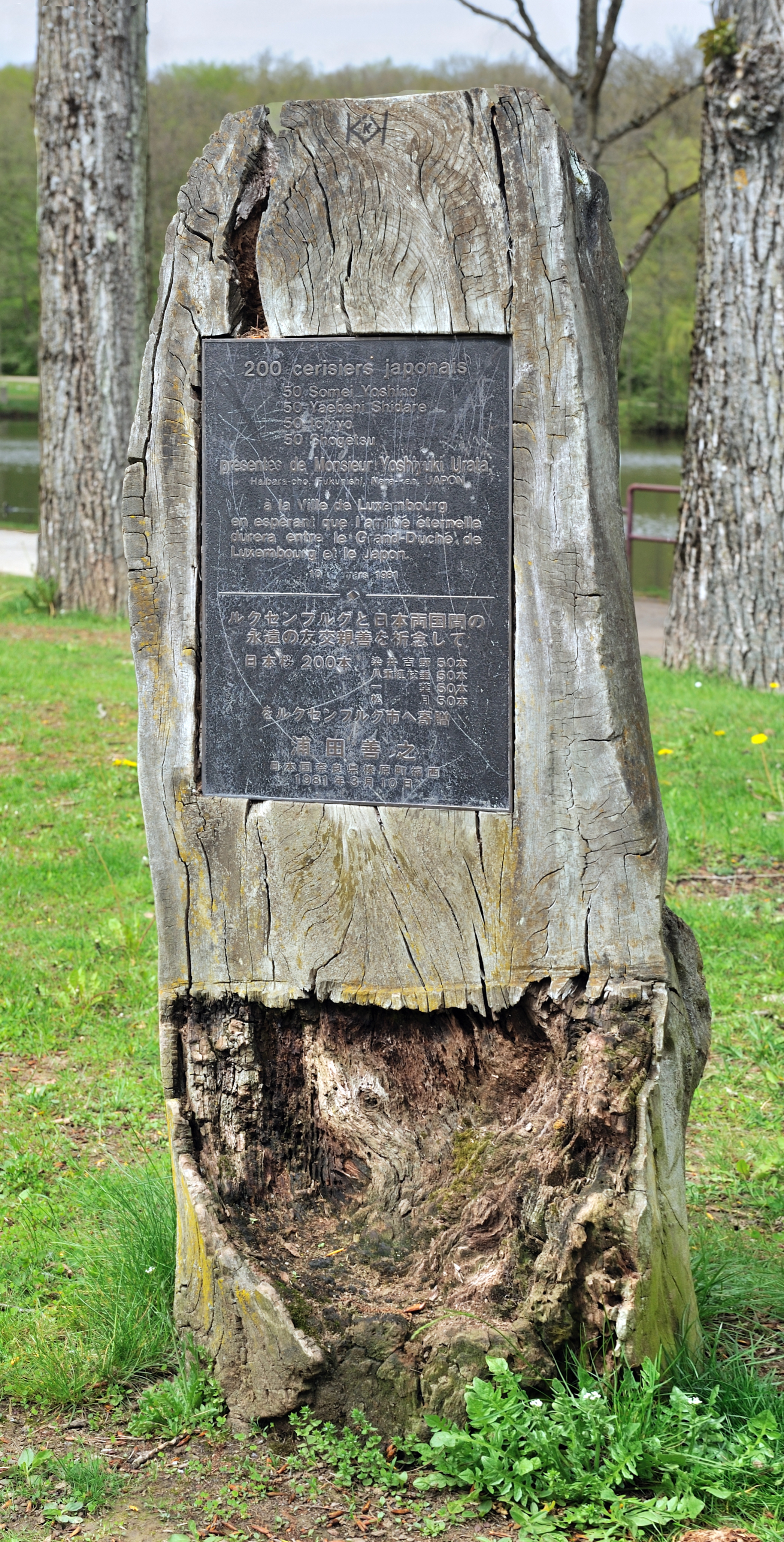 Luxembourg City, Kockelscheuer: trunk with a plaque commemorating the gift of 200 Japanese cherry trees by Yoshiyuku Urata to the City of Luxembourg in 1981.